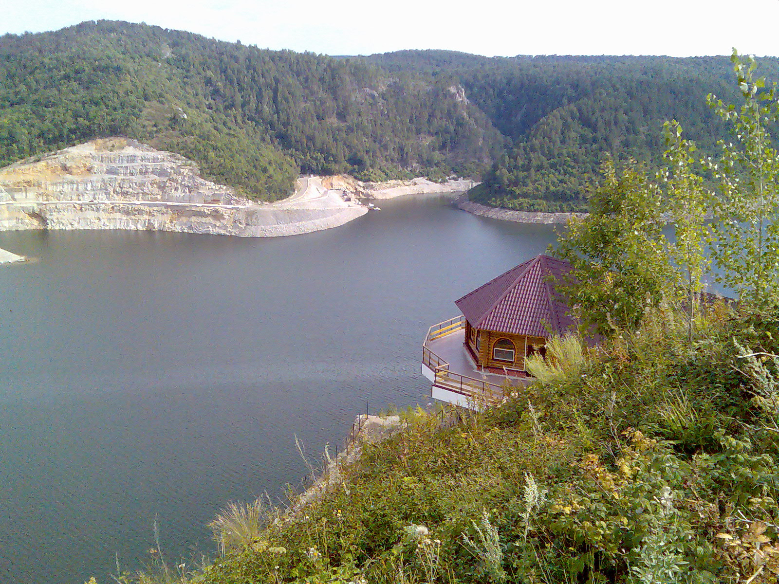 Yumaguzino Reservoir, Bashkortostan - Russia.